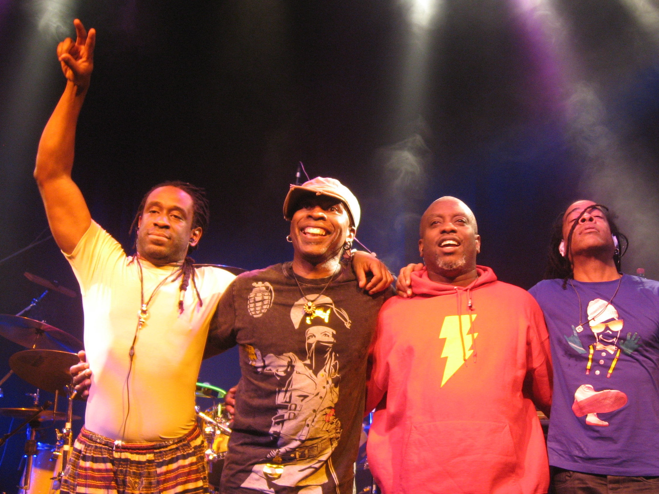 Living Colour at a concert in Graz 2010